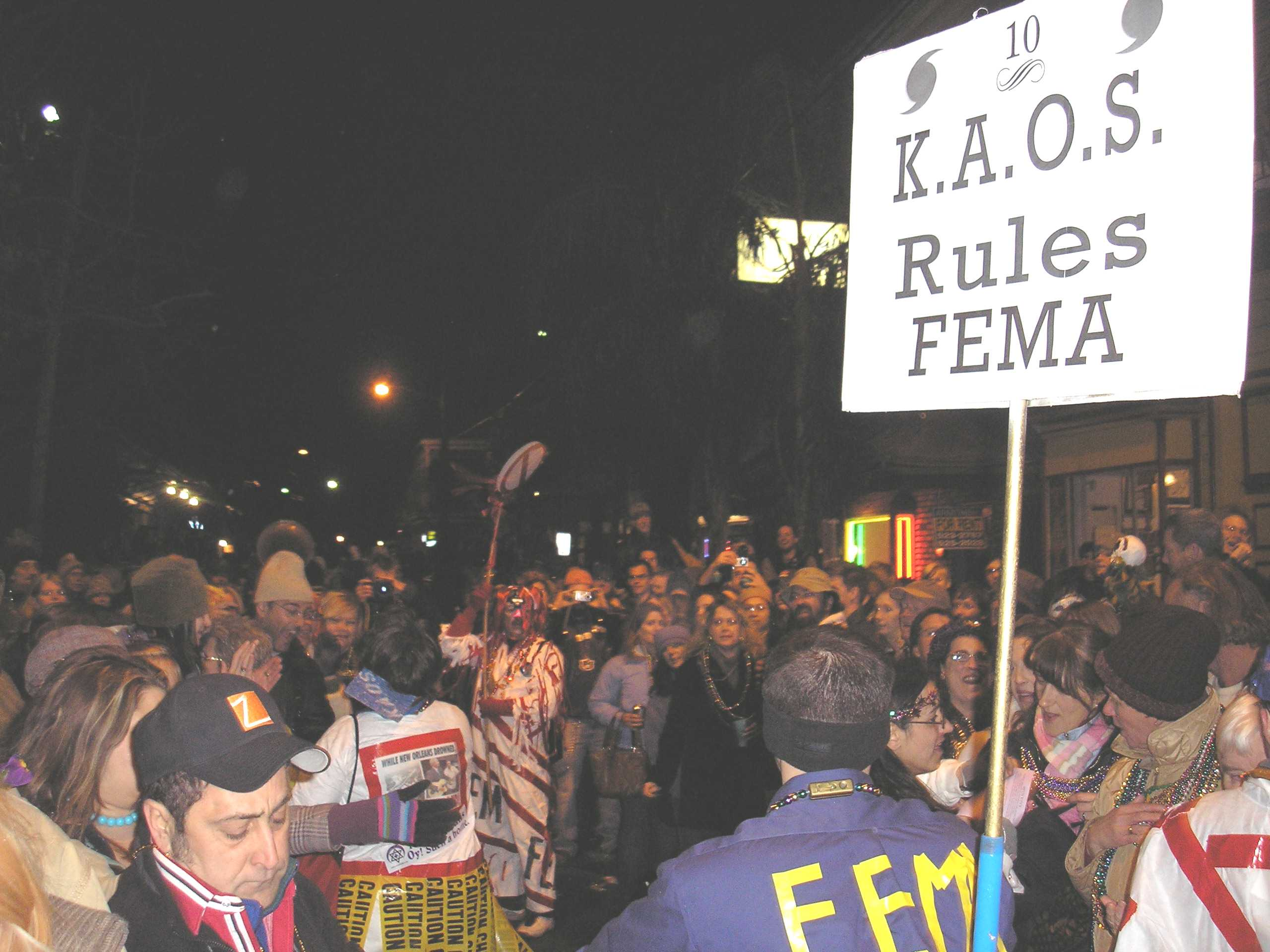 Krewe du Vieux parade on Frenchmen Street, 2006